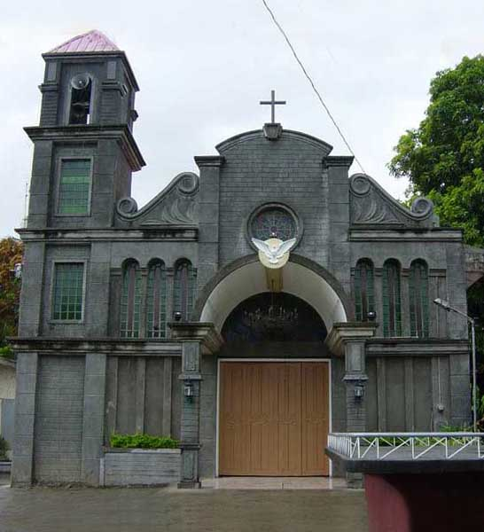 Facade of the Our Lady of Assumption Parish Church, which is a church of the Iglesia Filipina Independiente, in Maragondon, Cavite. Not to be confused with the Roman Catholic Our Lady of the Assumption Parish Church also known as Maragondon Church.